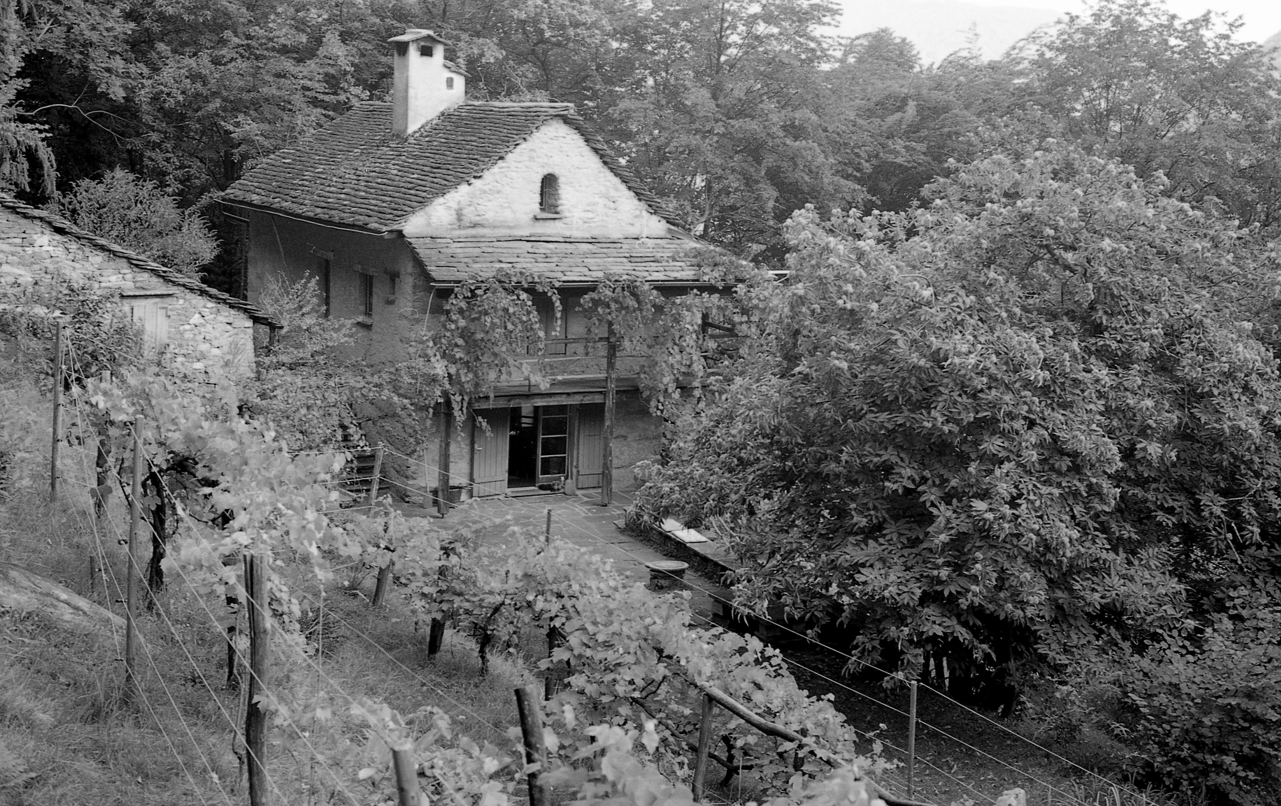 House near Berzona village, Isorno municipality, Ticino, Switzerland